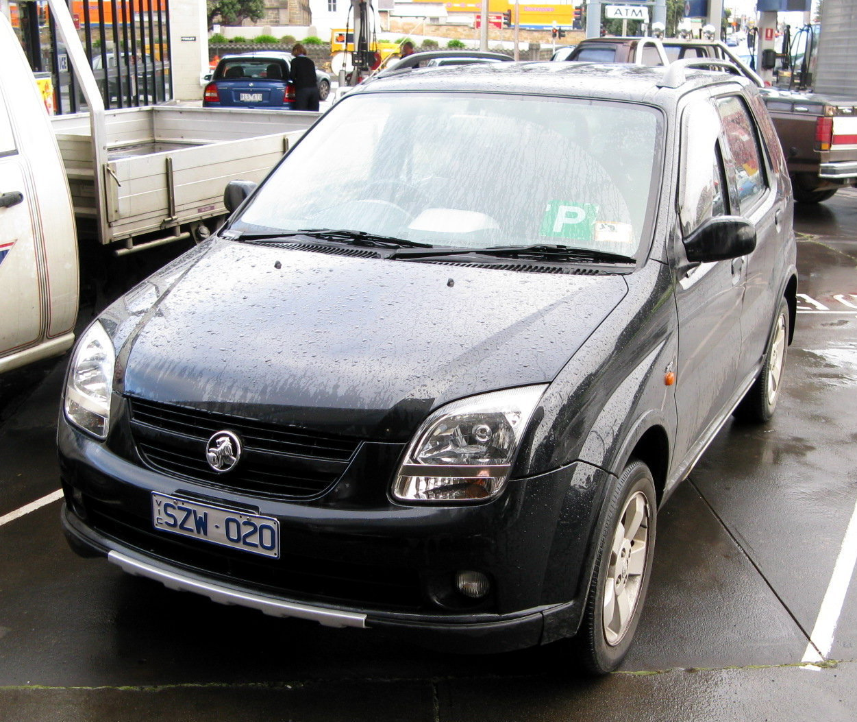 2004 Holden Cruze (YG) wagon. Photographed in Warrnambool, Victoria, Australia. Vehicle registration enquiry resultsJurisdictionVictoriaRegistrationSZW020Chassis codeJSAGHY81S00121166Engine codeM15A1053752Compliance date2004-07Year of manufacture2004